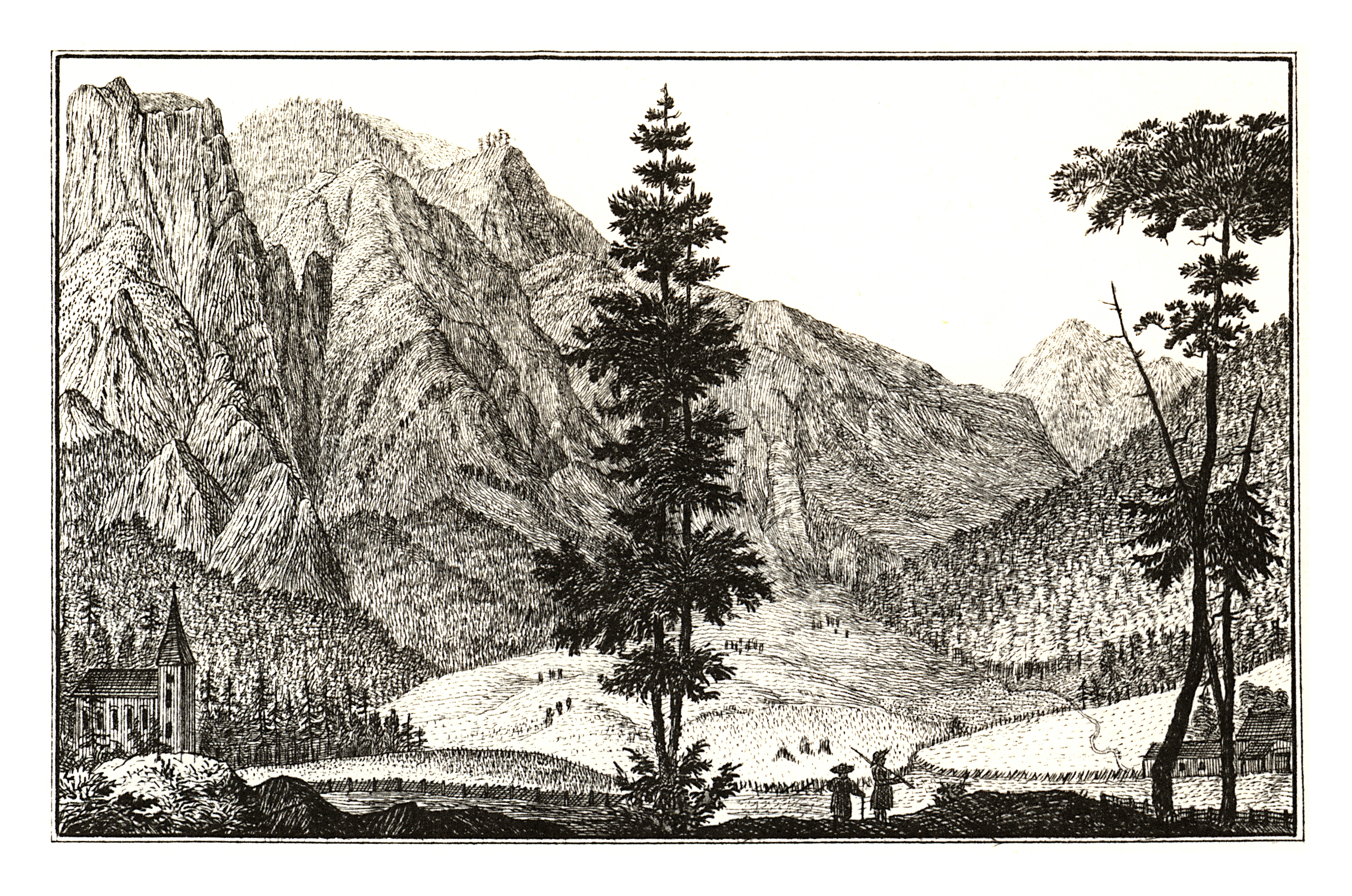 J. F. Kaiser - lithographirte Ansichten der Steyermärkischen Städte, Märkte und Schlösser, Graz 1824-1833 Joseph Franz Kaiser (1786–1859) Alternative names J. F. KaiserDescriptionAustrian printer and editorDate of birth/death 11 March 1786 19 September 1859Location of birth/death Graz (Styria) GrazAuthority control : Q1499963 VIAF: 30629353 ISNI: 0000 0000 3083 0153 LCCN: n87141671 GND: 129880159 NLP: A24960305 WorldCat creator QS:P170,Q1499963 . Scanprojekt Community Projektbudget 2012 This scan or this PDF-file was created within the GLAM-project Bookscanning, supported by Wikimedia Germany and Wikimedia Austria as a part of the community-project to capture books, documents and pictures which are not eligible to copyright or for which the copyright has expired. This document describes or depicts an object which is located in Austria today. Send requests for uncompressed scans to Hubertl. This work is in the public domain in its country of origin and other countries and areas where the copyright term is the author's life plus 100 years or fewer. You must also include a United States public domain tag to indicate why this work is in the public domain in the United States. This file has been identified as being free of known restrictions under copyright law, including all related and neighboring rights.